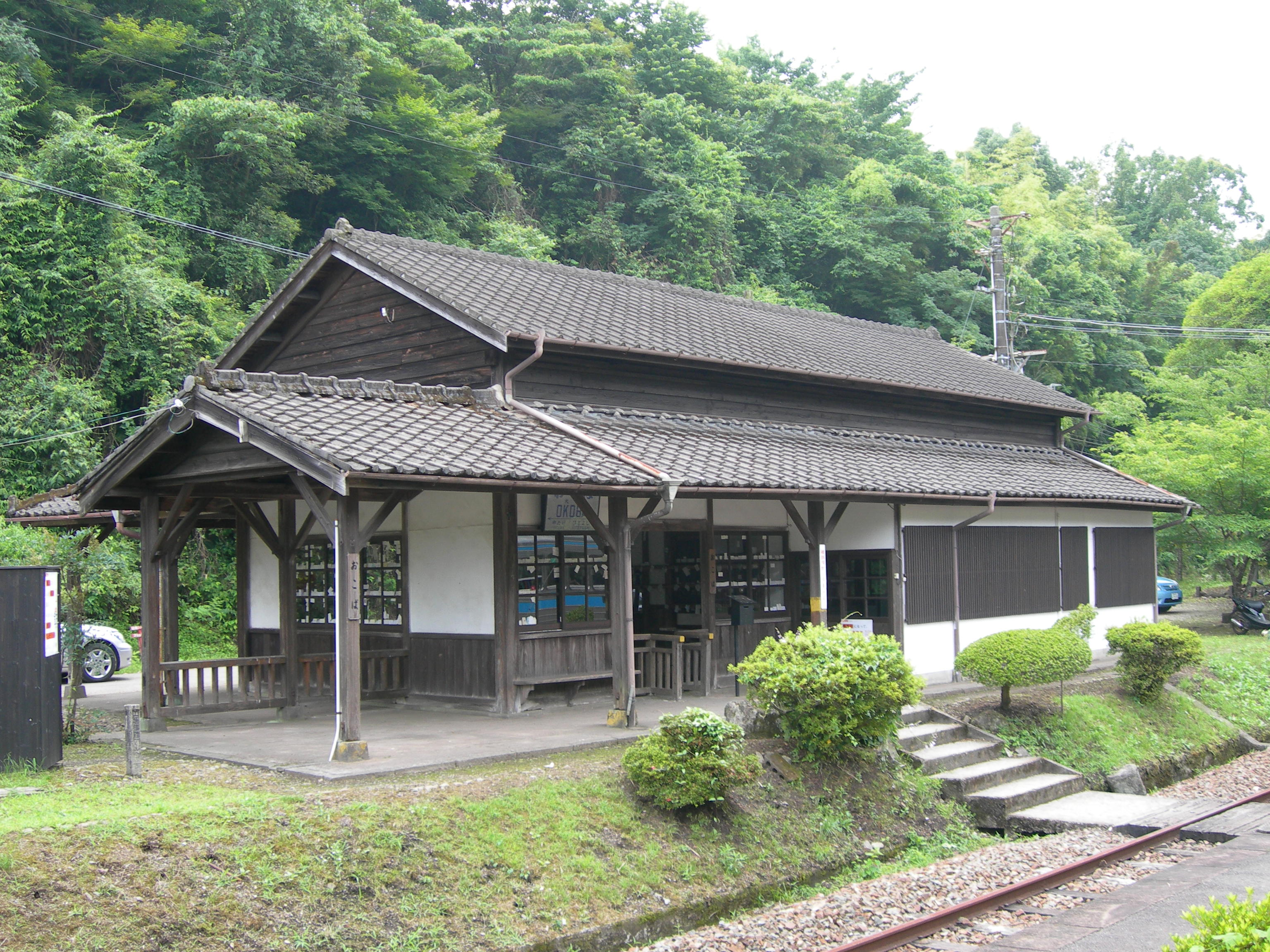 Okoba Station seen from the track side